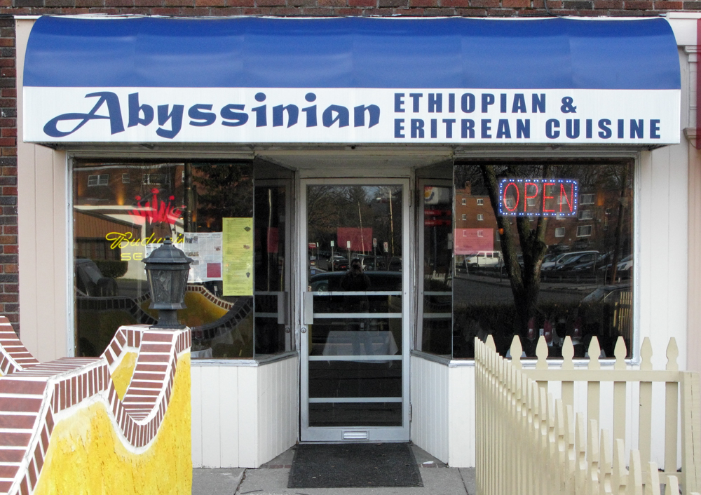 Abyssinian Ethiopian Restaurant in Hartford's West End